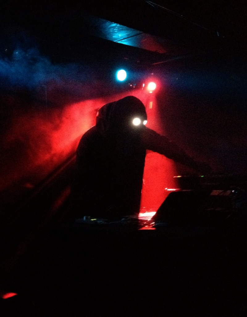 Electronic musician Danger performing in Vancouver, British Columbia, Canada on June 1, 2012 at the Biltmore Cabaret.